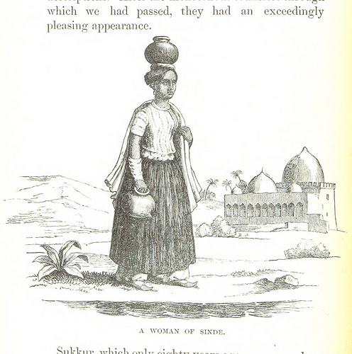 Sindhi lehenga, choli and Sindhi traditional pantaloon shalwar (1845). "Travels in India, including Sinde and the Punjab; ... translated from the German, by H. E. Lloyd"